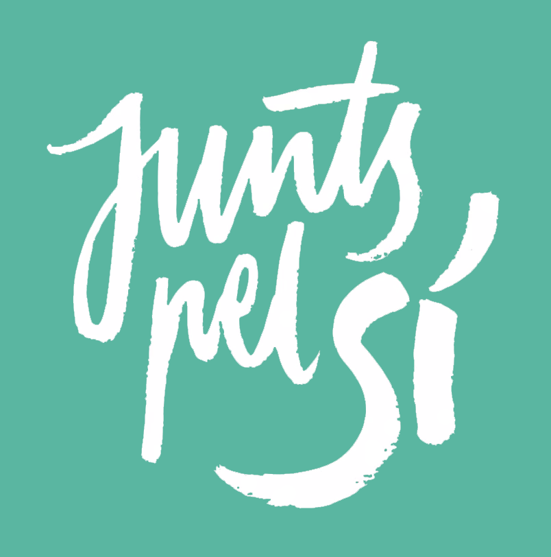 Junts pel Sí emblem